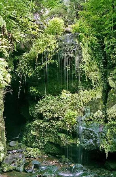 This picture shows the Waterfall Amselfall in Saxon Switzerland Autor: Prazak